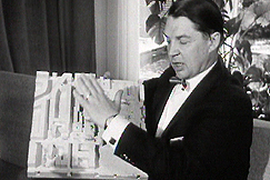 Architect Aarne Ervi in 1961 presenting use of prefabricated elements in construction in Finland.